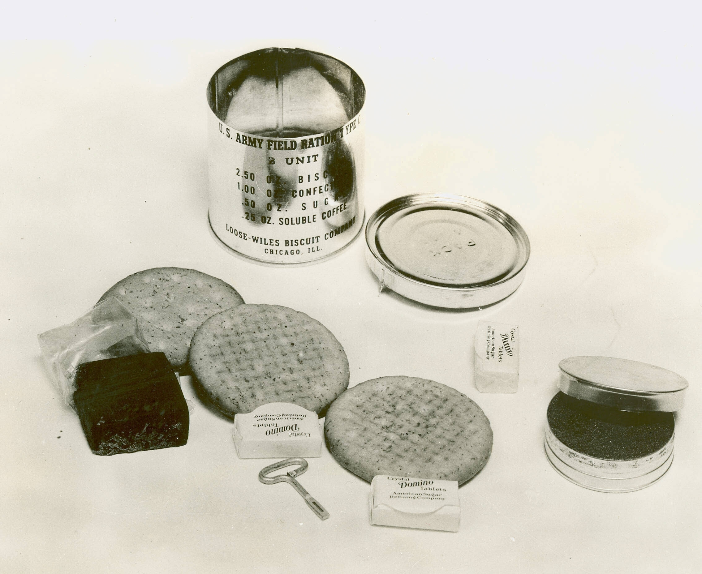 A 1941 C Ration B unit, with contents: 3 biscuits, cellophane wrapped chocolate fudge, 3 pressed sugar cubes, and a small tin of soluble (instant) coffee. Note the key included to open the accompanying A ration (the opening key for the B ration was soldered to the base of the can) Can label indicates contents and supplier: "2.50 oz Biscuit, 1.00 oz Confection, .50 oz Sugar, .25 oz Soluble CoffeeLoose-Wiles Biscuit Company, Chicago Ill.".